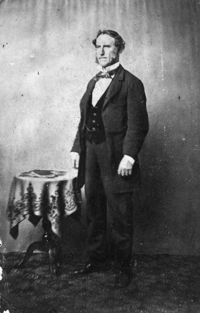 G. Edmondstone, Mayor of Brisbane, 1863. Mayor of Brisbane, 1863.